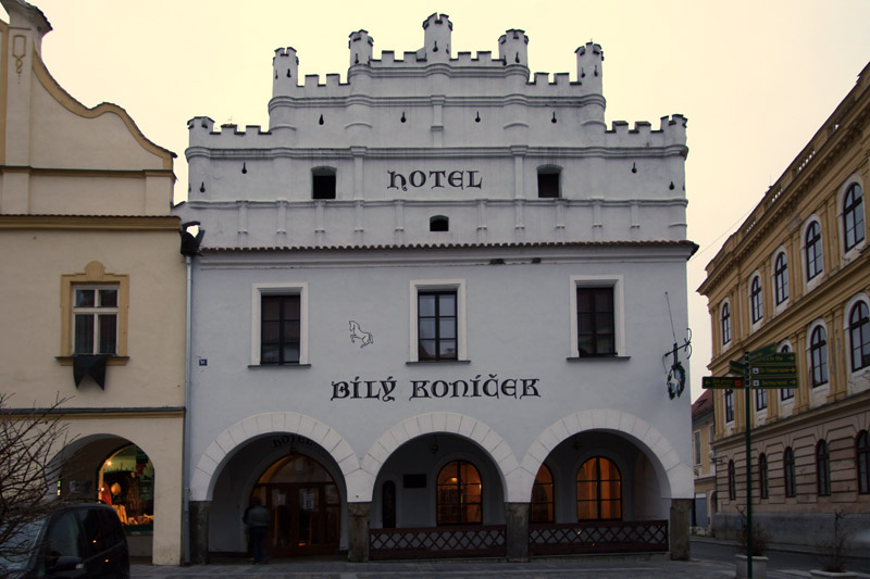 Bílý koníček hotel, Třeboň, Czech Republic